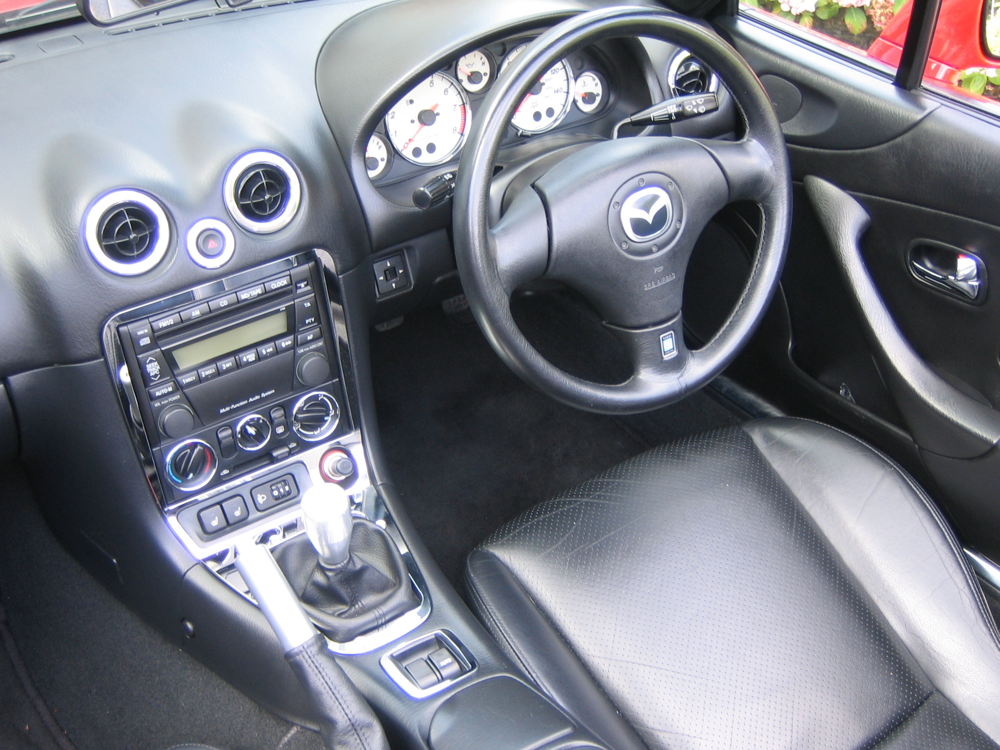 2002 Mazda MX5 1.8 Sport Black Interior